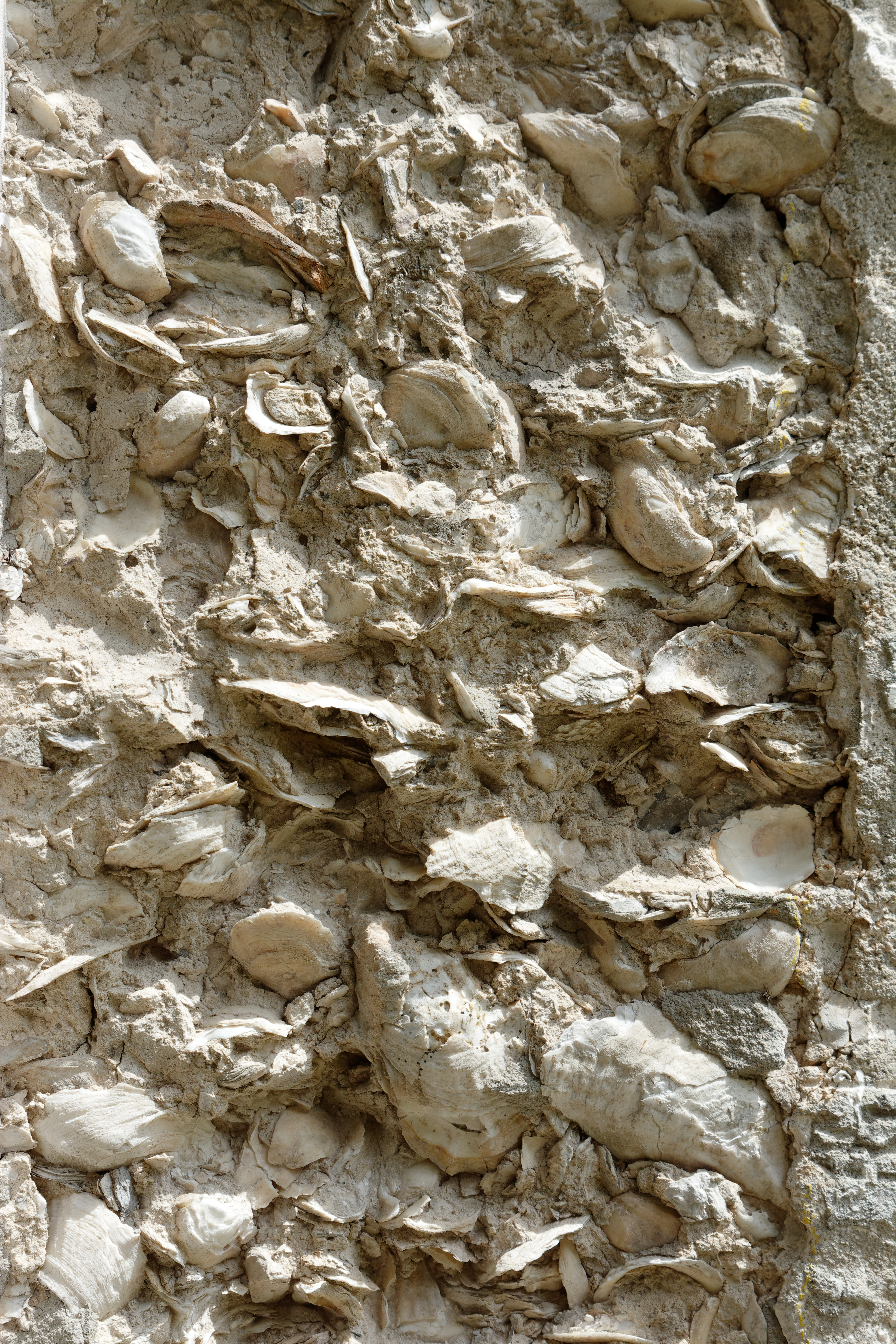 Hamilton Plantation slave houses, St. Simons, Georgia, USA On Gascoigne Bluff Close view of tabby